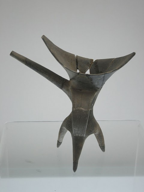 Xia Dynasty pottery jue